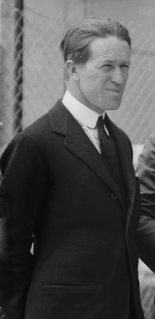 T. E. Lawrence in Palestine, cropped from "The new era in Palestine". The arrival of Sir Herbert Samuel, H.B.M. high commissioner.